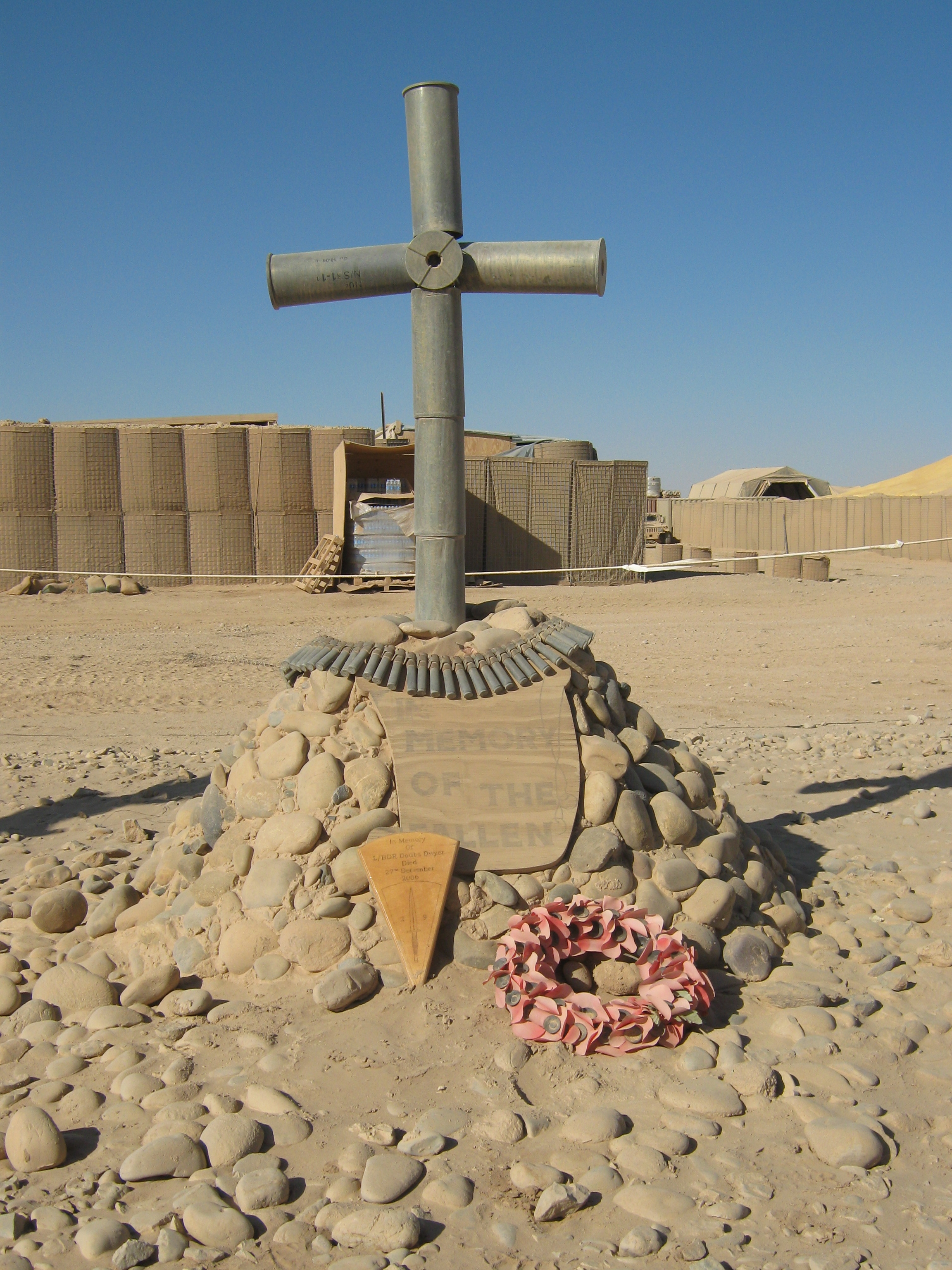 Dwyer Memorial on Camp Dwyer, Afghanistan. This memorial was for L/BDR Doubs Dwyer, died on December 27, 2006.